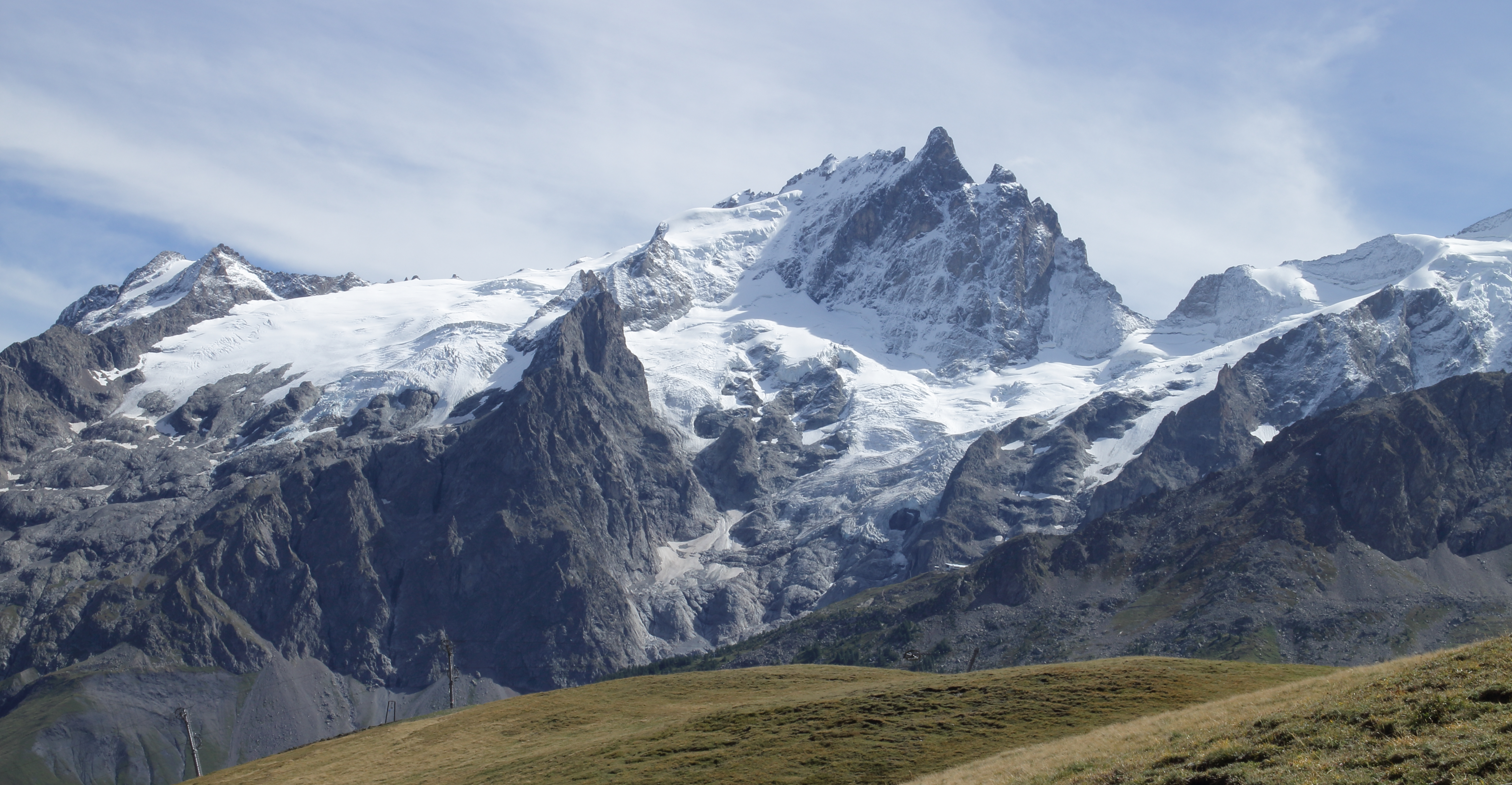 Plateau d'emparis. View Massif de la Meije.